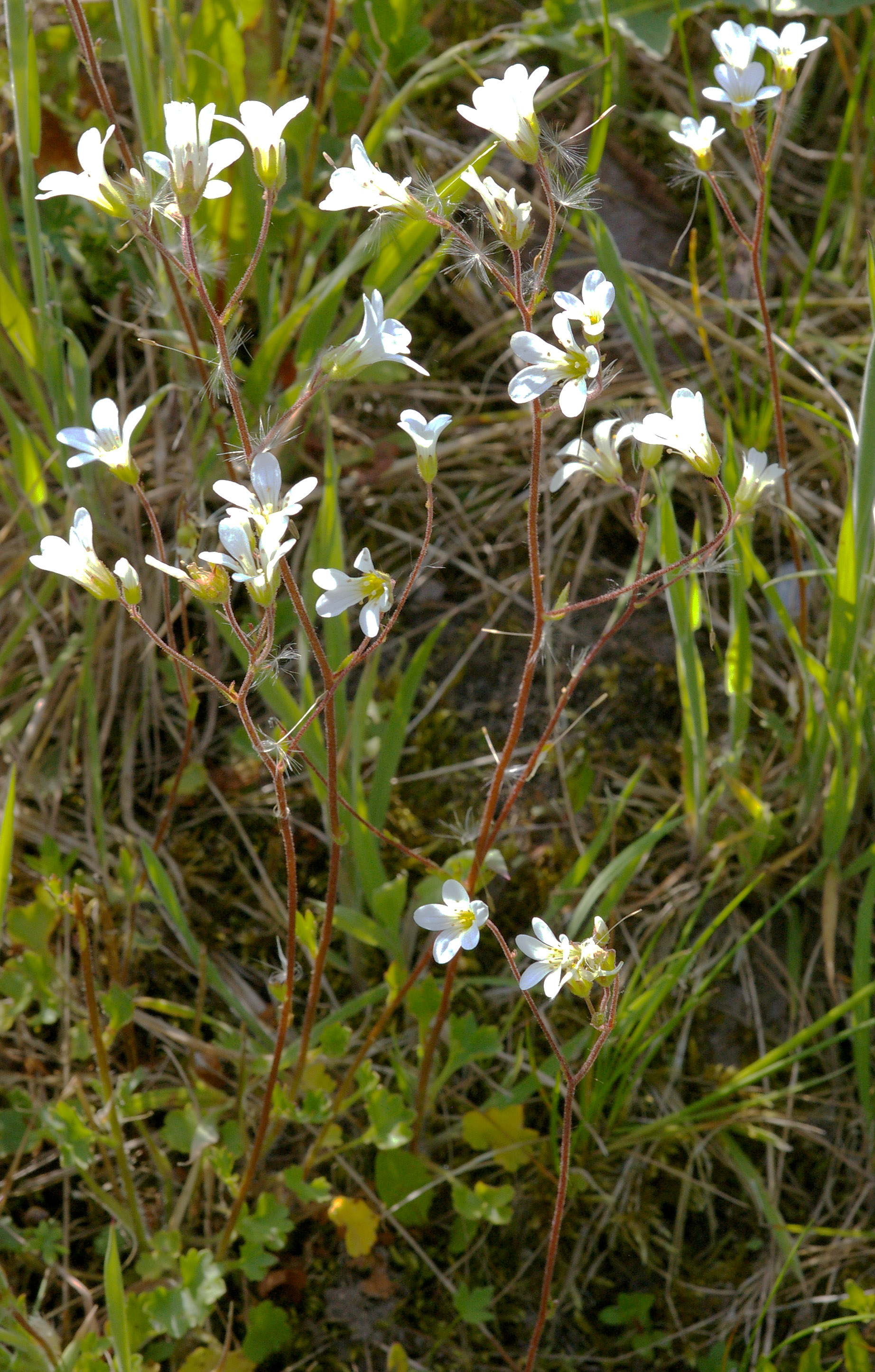 Flowering Meadow Saxifrage, Saxifraga granulata (Saxifragaceae).